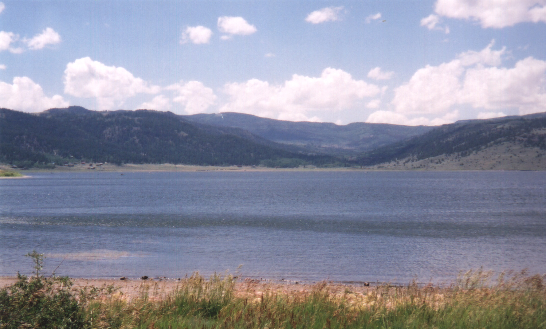 Looking northwest, the clear blue waters of Panguitch Lake are visible under a pleasantly cloudy sky.